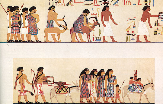 Drawing of the famous depiction of the Aamu group.